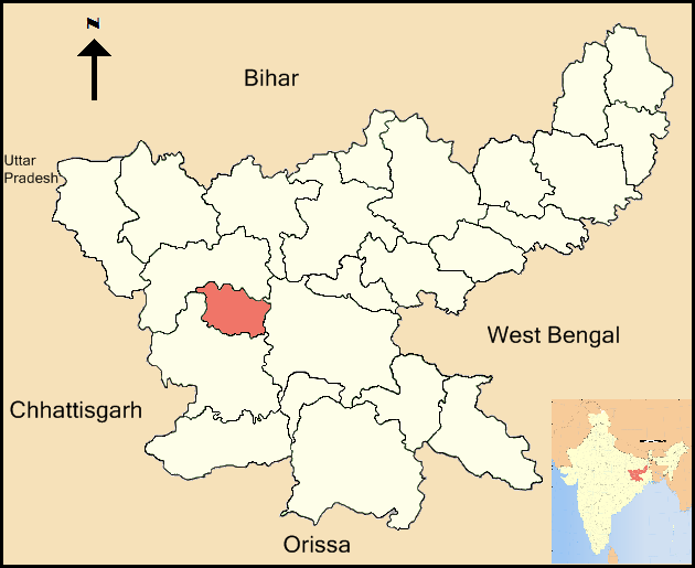 A locator map of Lohardaga district, Jharkhand state, India